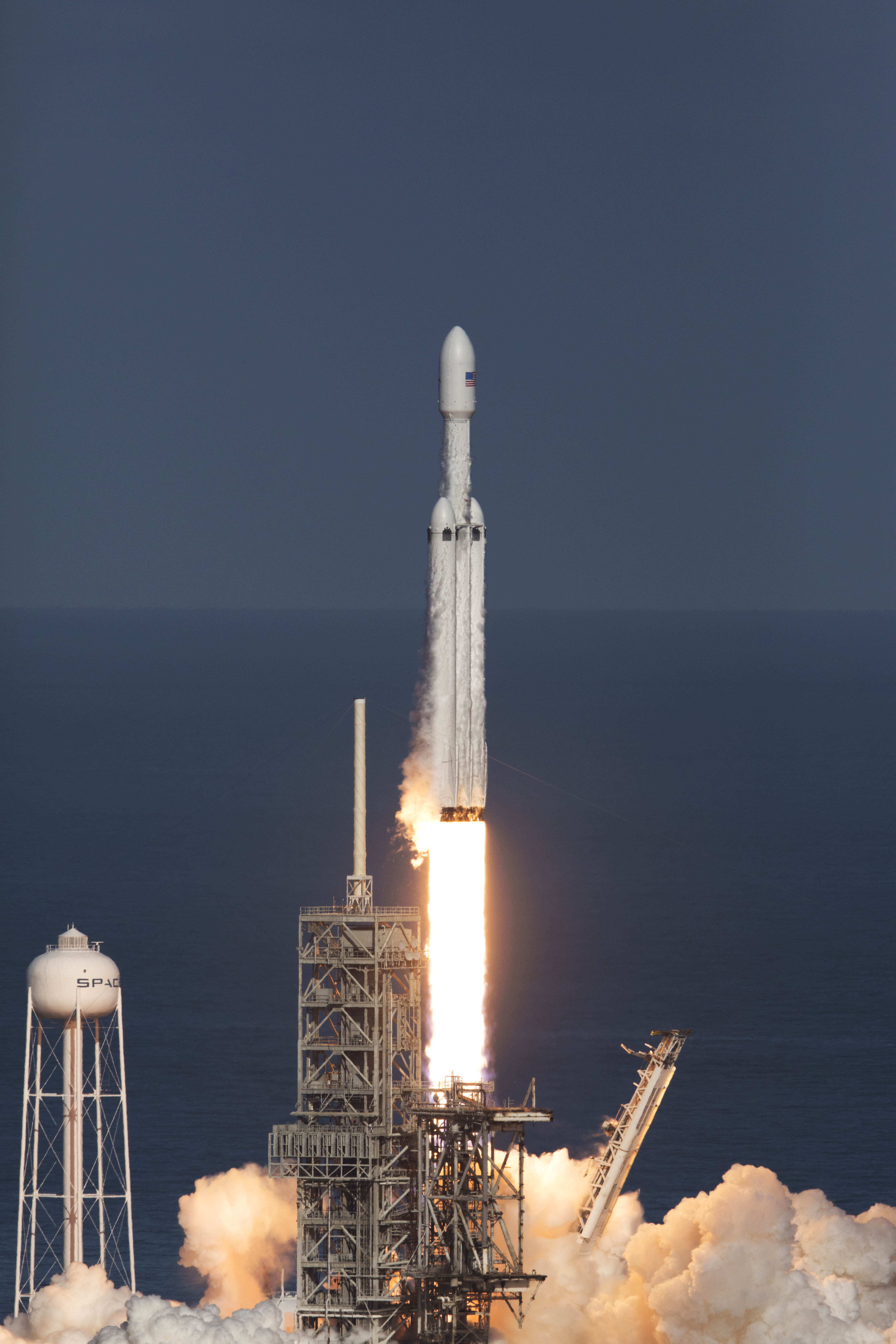 A SpaceX Falcon Heavy rocket begins its demonstration flight with liftoff at 3:45 p.m. EST from from Launch Complex 39A at NASA's Kennedy Space Center in Florida. This is a significant milestone for the world's premier multi-user spaceport. In 2014, NASA signed a property agreement with SpaceX for the use and operation of the center's pad 39A, where the company has launched Falcon 9 rockets and prepared for the first Falcon Heavy. NASA also has Space Act Agreements in place with partners, such as SpaceX, to provide services needed to process and launch rockets and spacecraft.